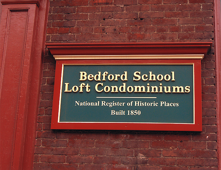 Building Sign, Bedford School Lofts, Pittsburgh